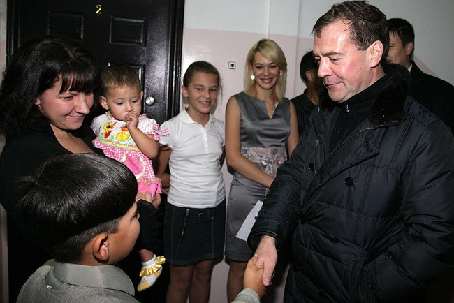 With residents of one of Yuzhno-Kurilsk’s new apartment blocks.